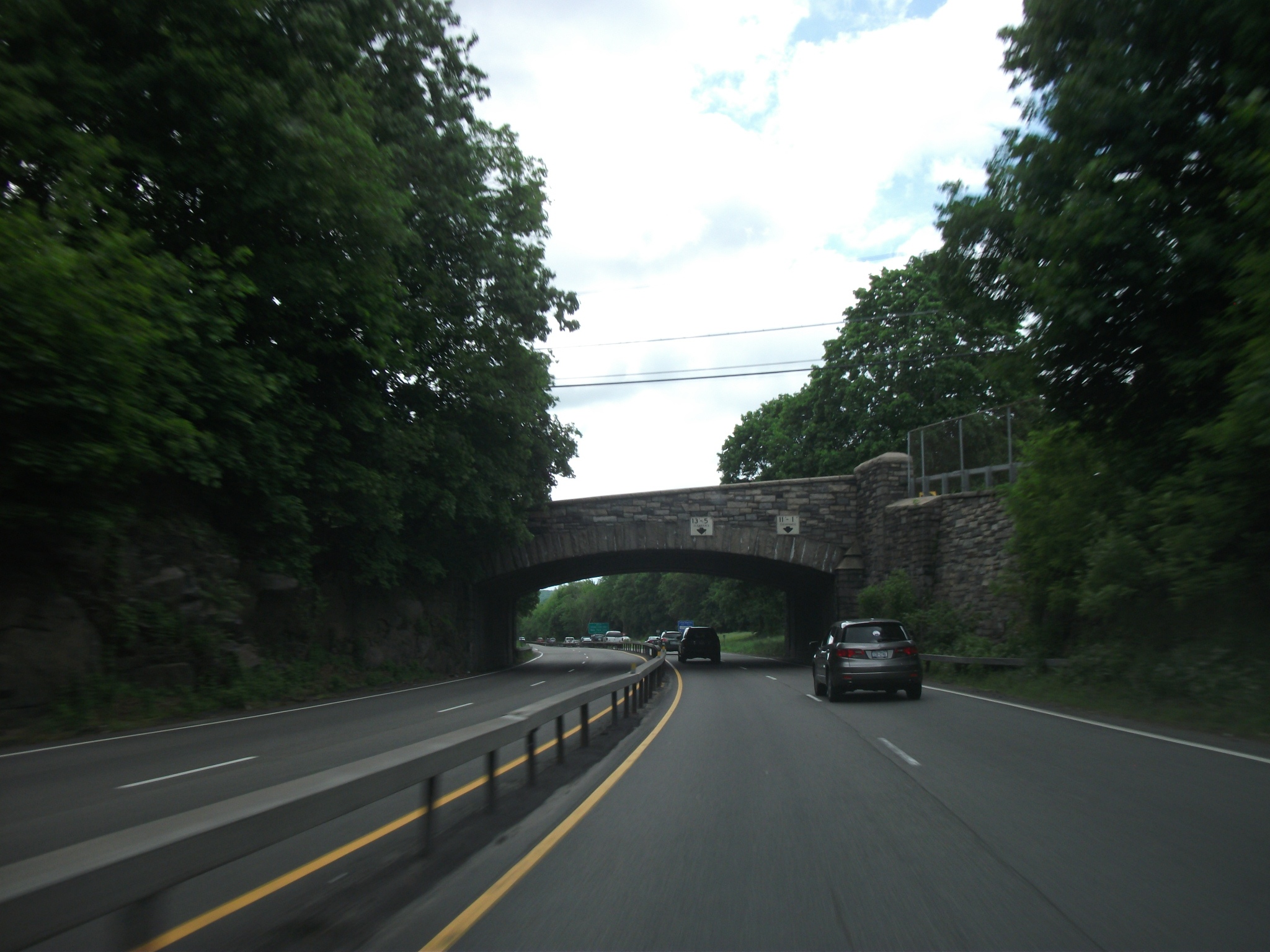 Southbound on New York State Route 9A and New York State Route 100 at Pleasantville Road in Briarcliff Manor.